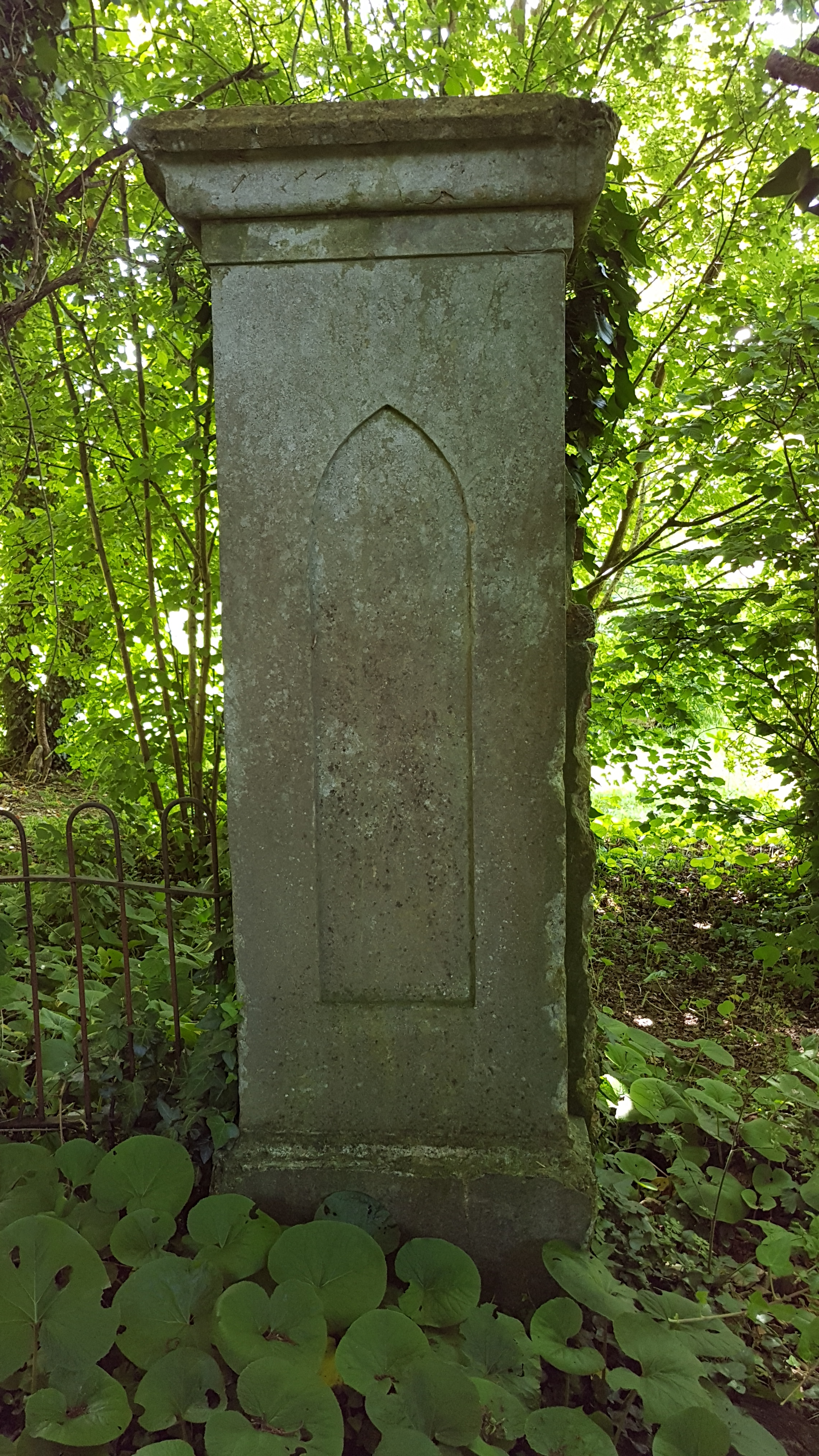 Surviving remnant.